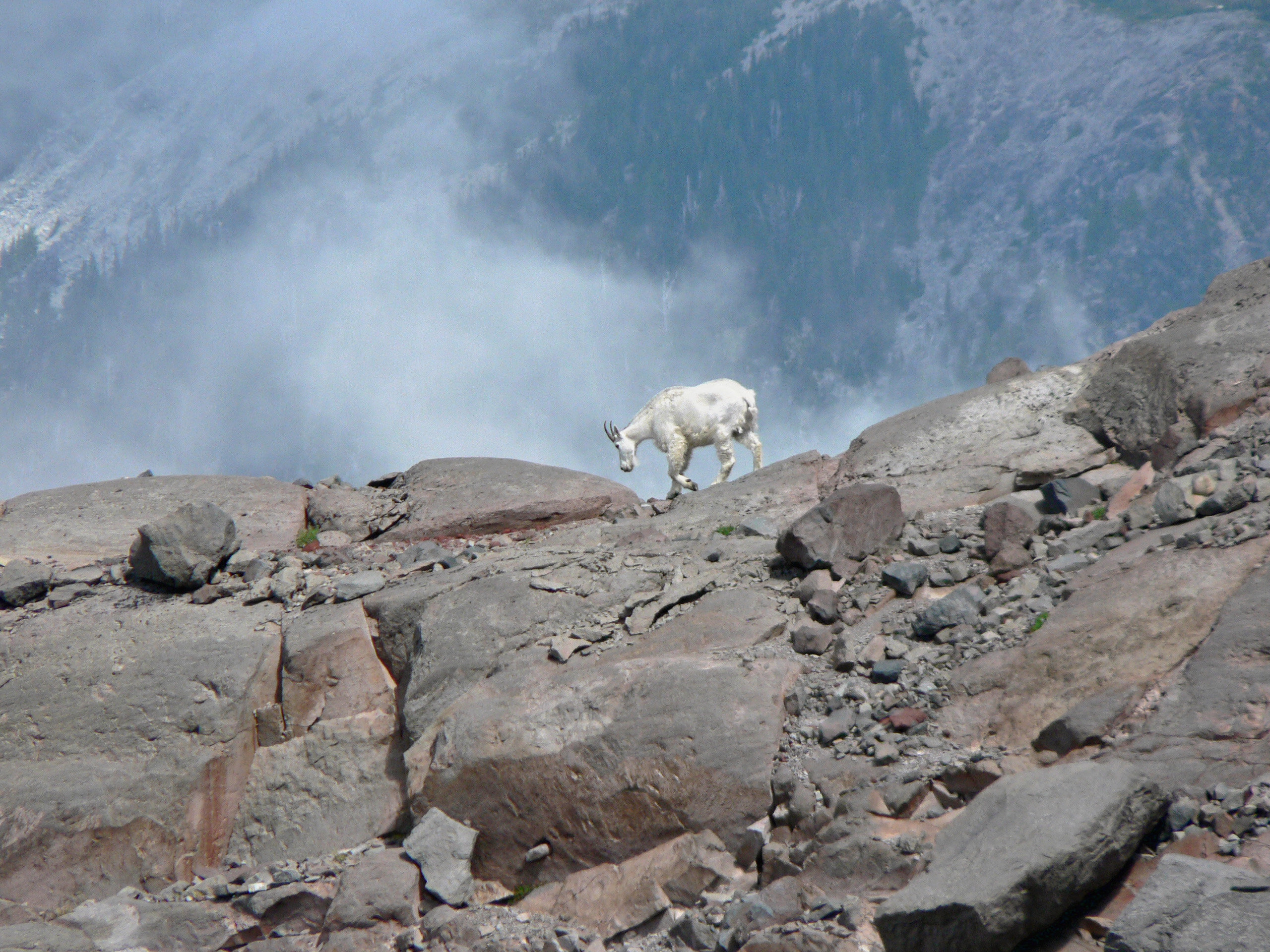 Mountain Goat